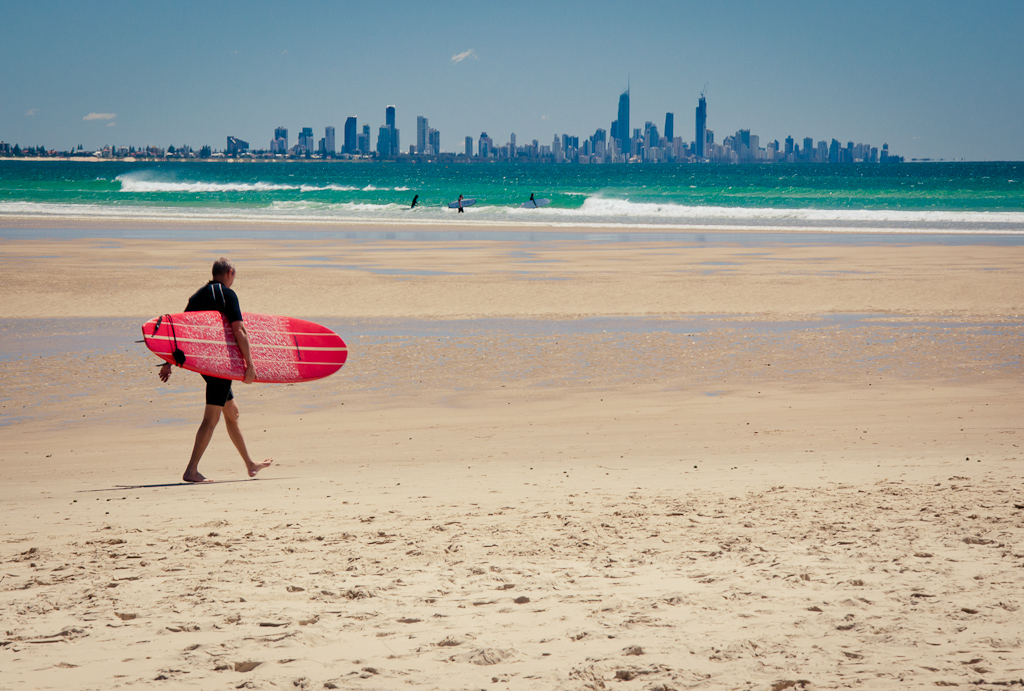 Surfer at Currumbin Beach, Gold Coast, Australia